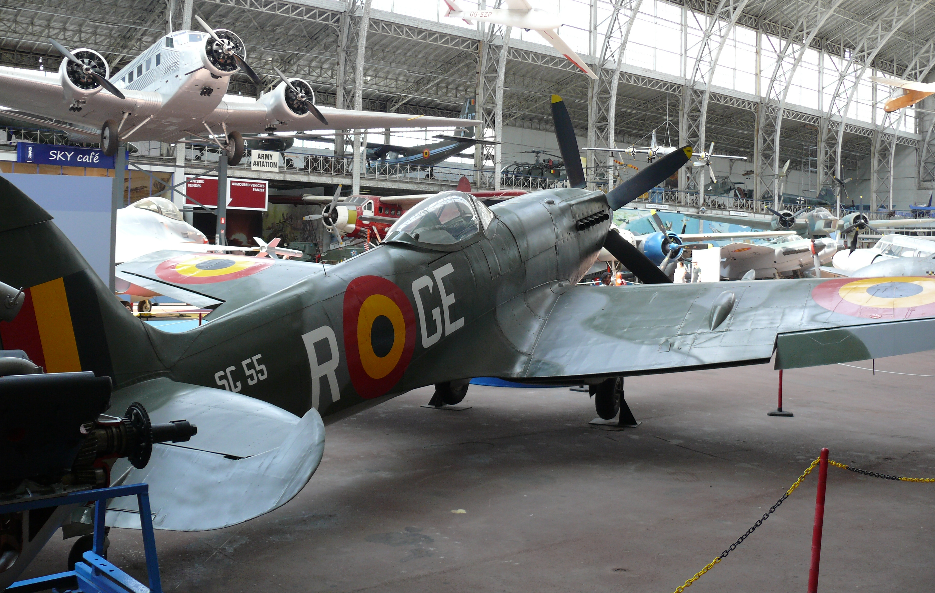 Supermarine Spitfire Mk XIV in the Royal Military Museum at the Jubelpark, Brussels.